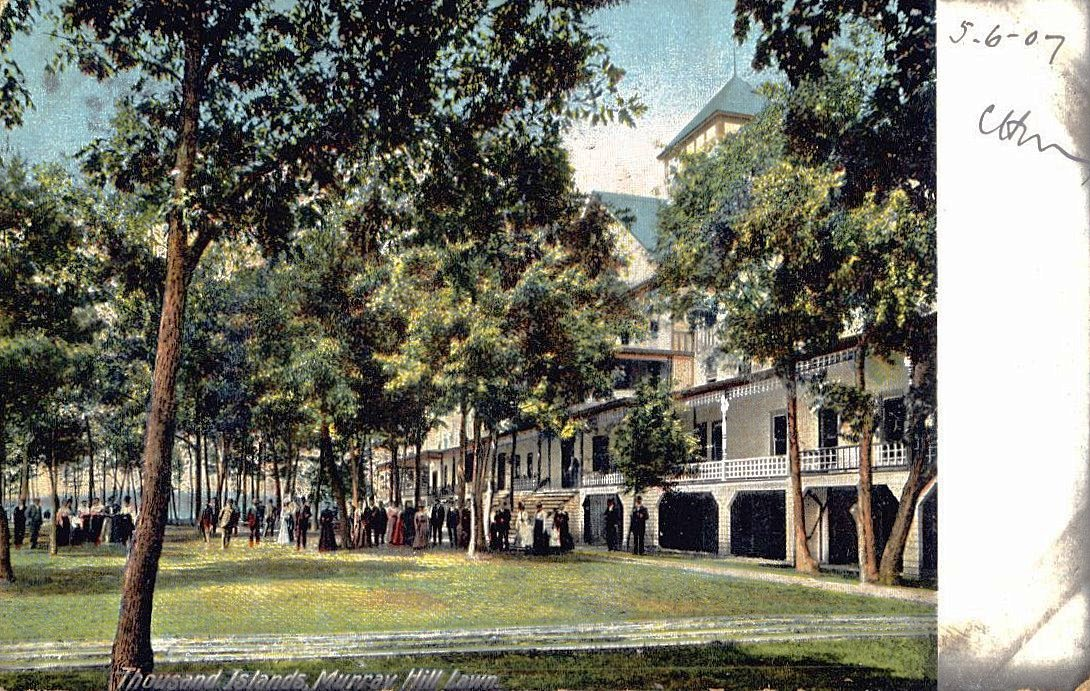 Murray Hill Hotel, Murray Isla, Thousand Islands, New York